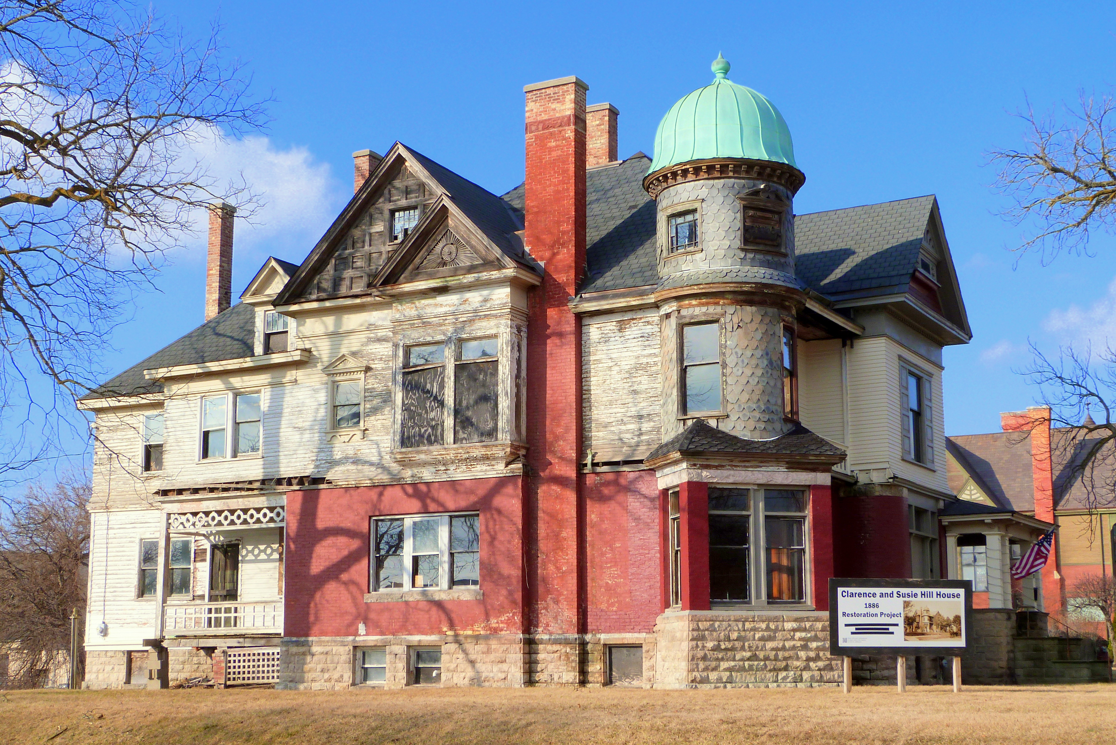 The historic Clarence and Susie Hill House (built 1886), located at 523 South Jefferson Avenue in Saginaw, Michigan, United States, is listed as a contributing ("pivotal") resource in the Saginaw Central City Historic Residential District. The historic district is listed on the U.S. National Register of Historic Places.